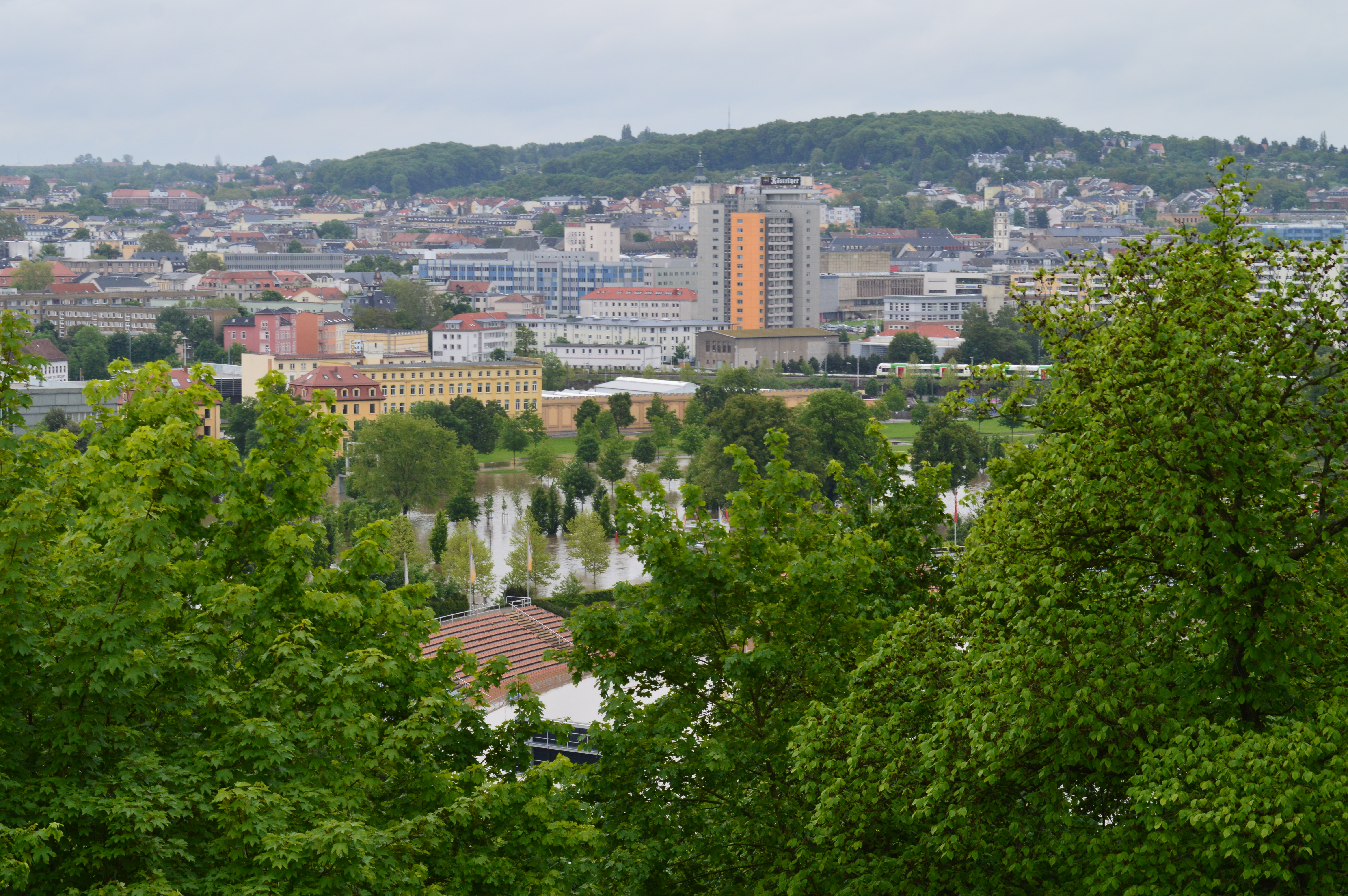 View from Schloss Osterstein to the city of Gera during the flood on 3 June 2013